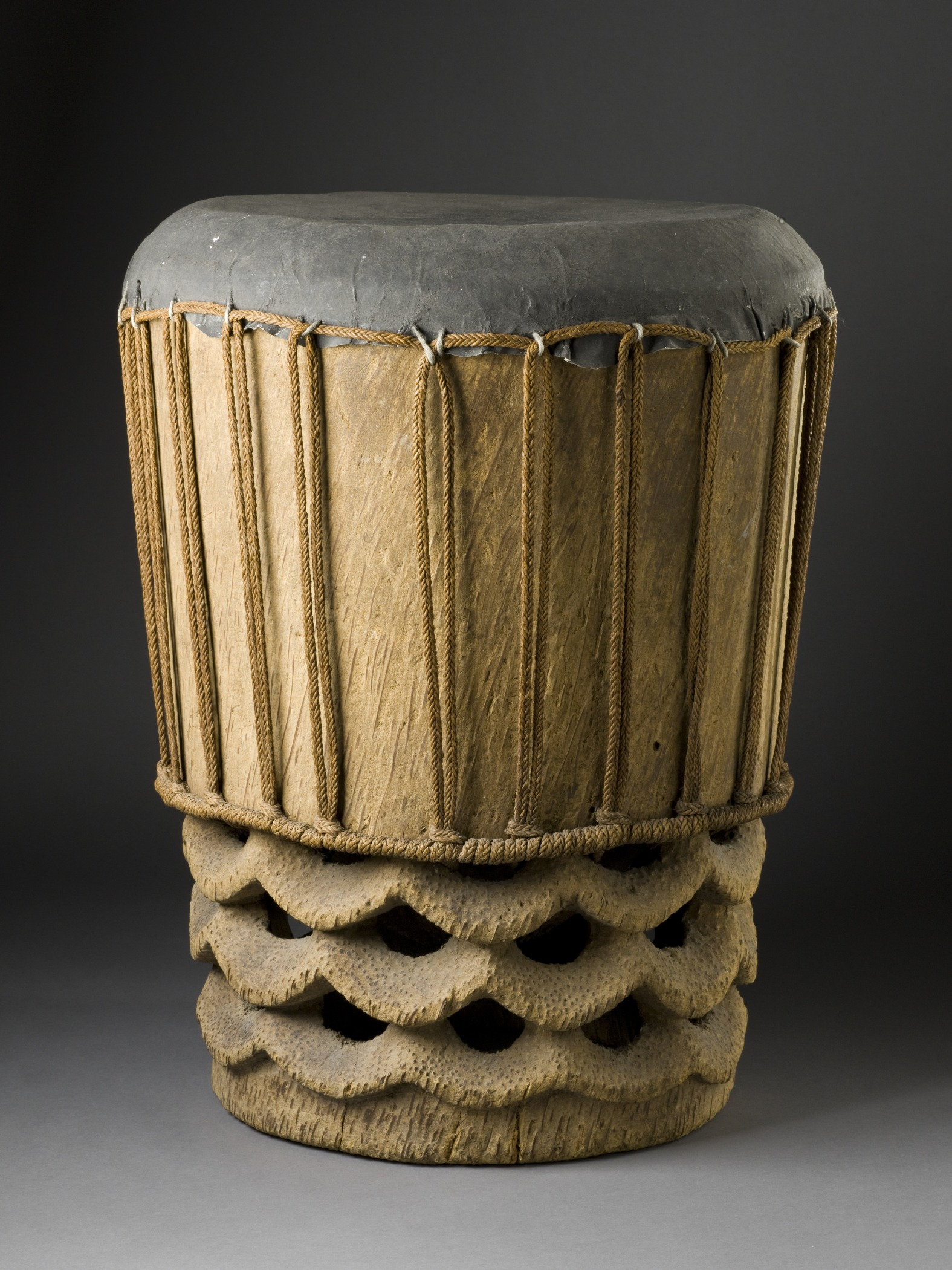 Hawaiian Islands, circa 1778 Tools and Equipment; musical instruments Wood, shark skin, and fiber Height: 20 1/2 in. (52.07 cm); Diameter: 15 in. (38.1 cm) Purchased with funds provided by the Eli and Edythe Broad Foundation with additional funding by Jane and Terry Semel, the David Bohnett Foundation, Camilla Chandler Frost, Gayle and Edward P. Roski and The Ahmanson Foundation (M.2008.66.11) Art of the Pacific Currently on public view: Ahmanson Building, floor 1